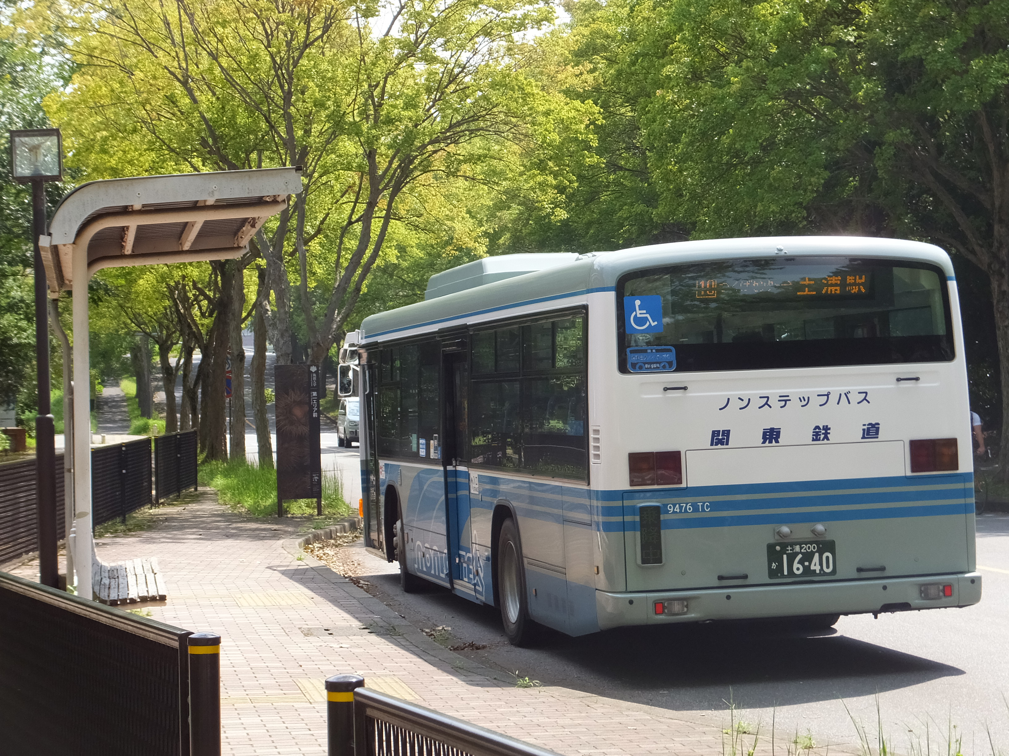 Kanto Railway Bus (Office Tsuchiura) departs from University of Tsukuba for Tsuchiura Station. Taken at First Area (Dai-ichi Area Mae) in University of Tsukuba.